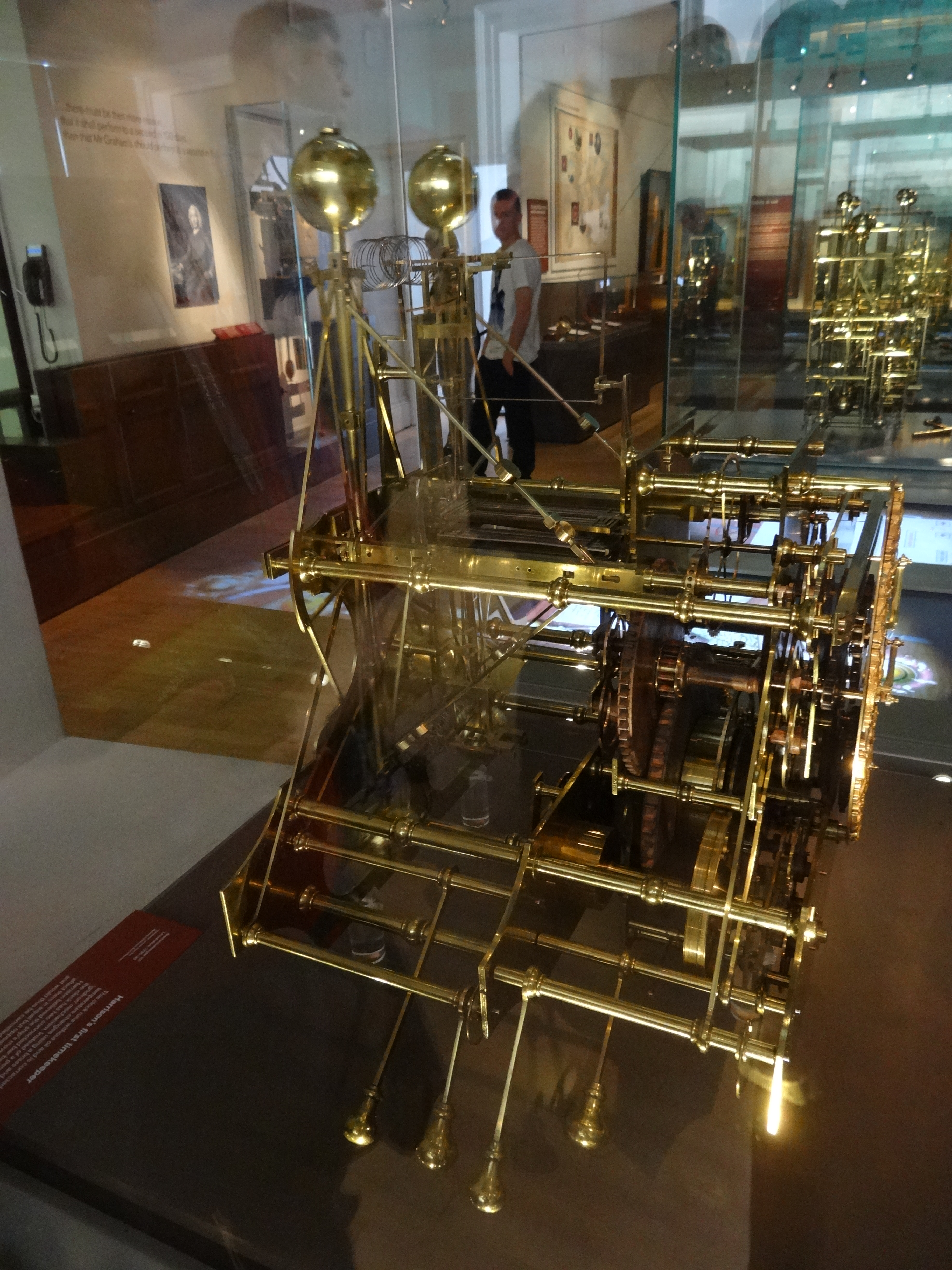 From the Longitude tour, with thanks to the Natonal Maritime Museum for allowing photography